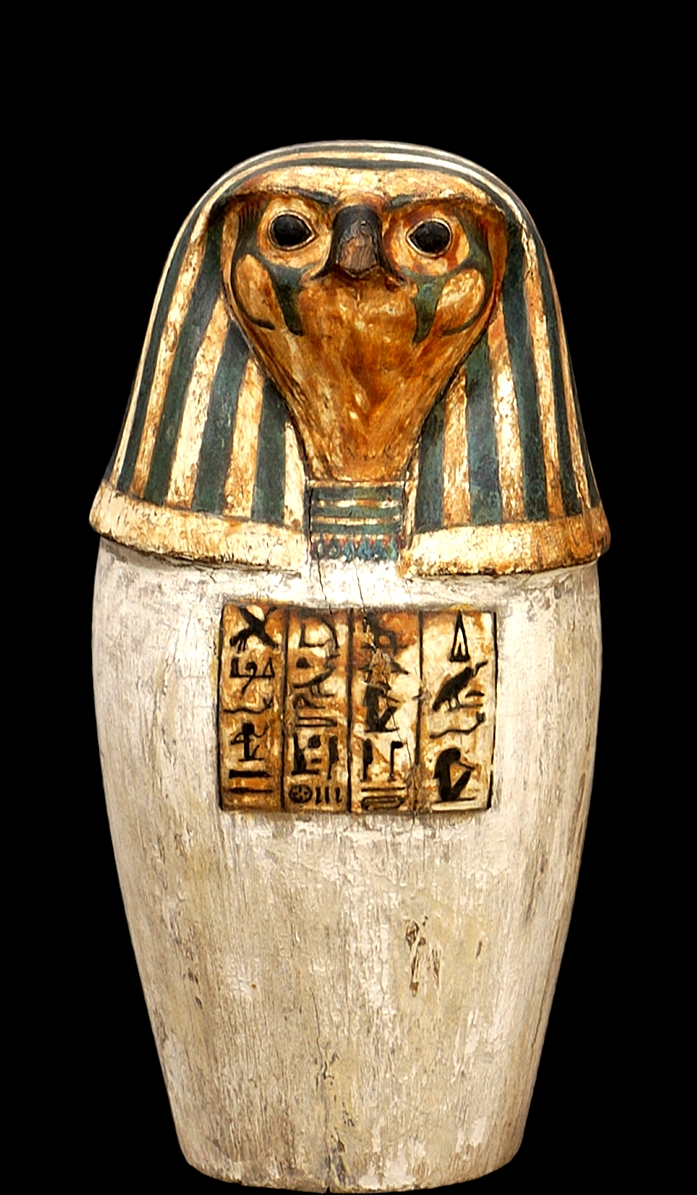 This is a photograph of a canopic jar depicting the god Kebehsenuf